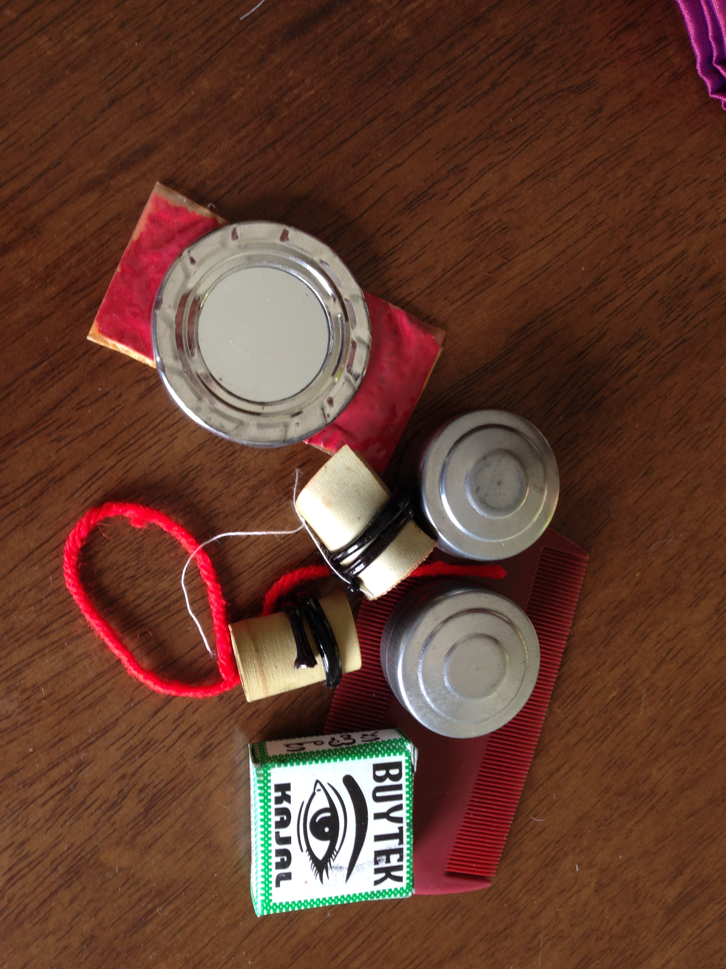 Gowri Habba In the Gowri Baagna there is a small beauty items packet, as per protocol it contains a small mirror, comb, eye liner, little pots of turmeric and vermilion, and ancient earrings called bichcholay, made of glass and wrapped around dried rolled up leaf. An identical packet may be included for the receiver's unmarried daughters (kanya). The Kanya packet can contain, in addition to this, modern decorative earrings, hair ornaments like ribbons and decorative rubber bands, bangles, bracelets or necklaces that the child would actually wear.